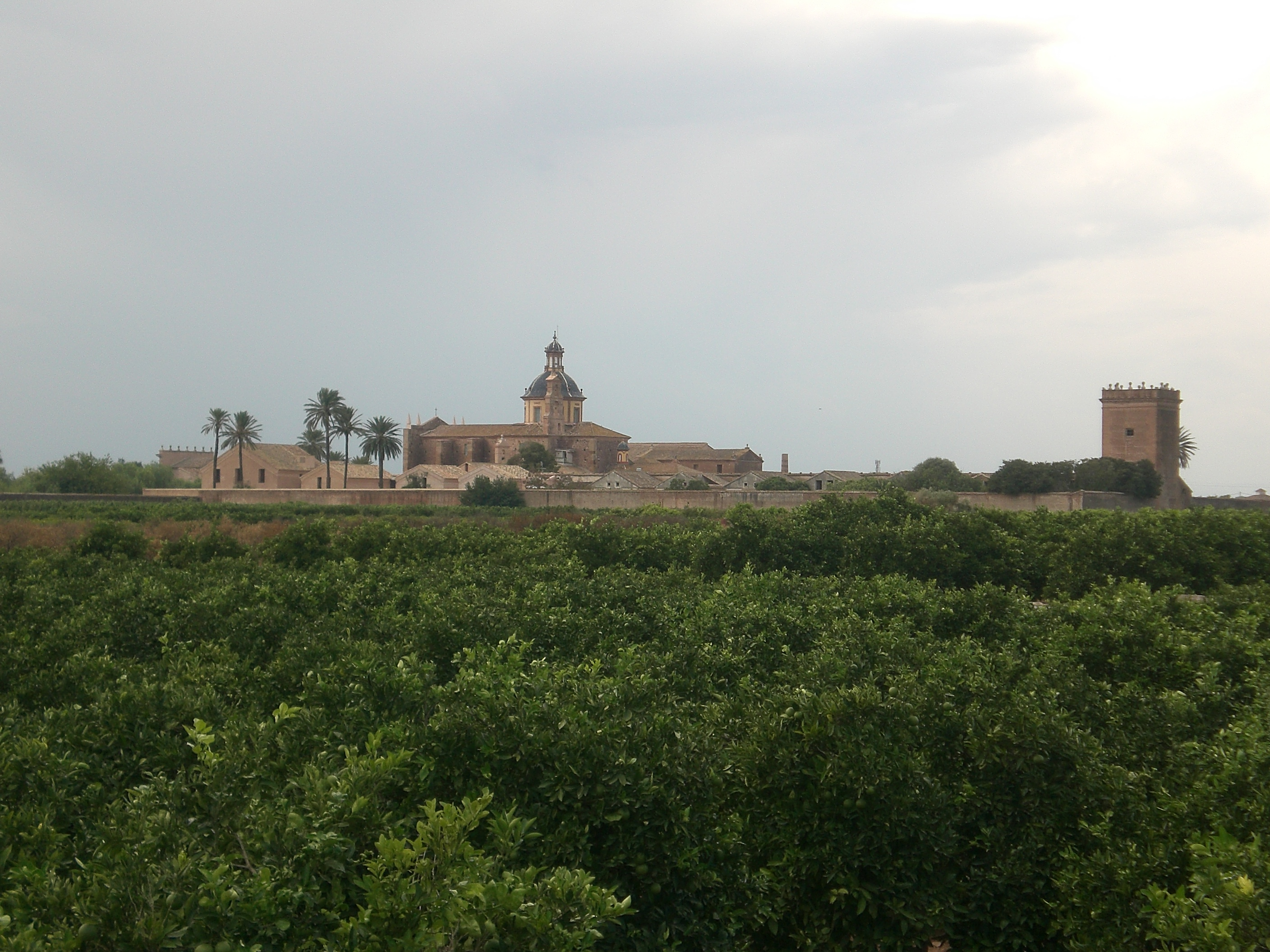 La cartuja en El Puig, Valencia